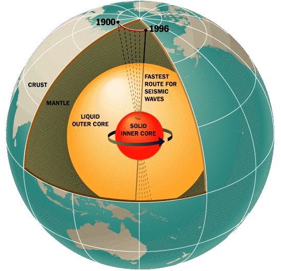 A schematic diagram of Earth's interior. The outer core is the source of the geomagnetic field.